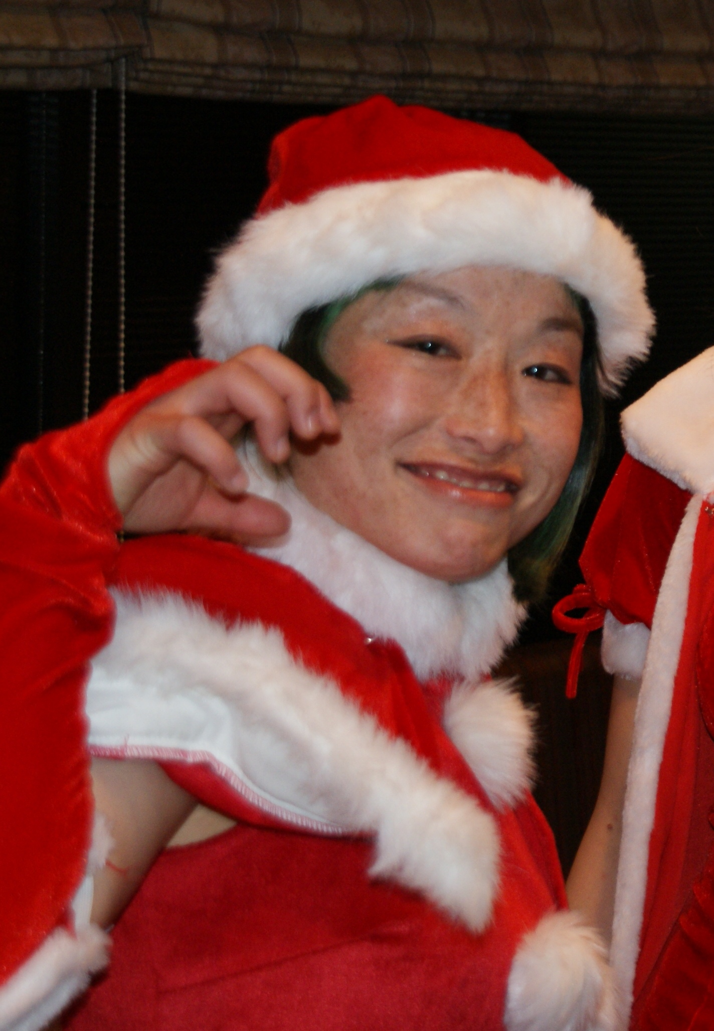 Professional wrestler Neko Nitta at the Ice Ribbon Christmas party.